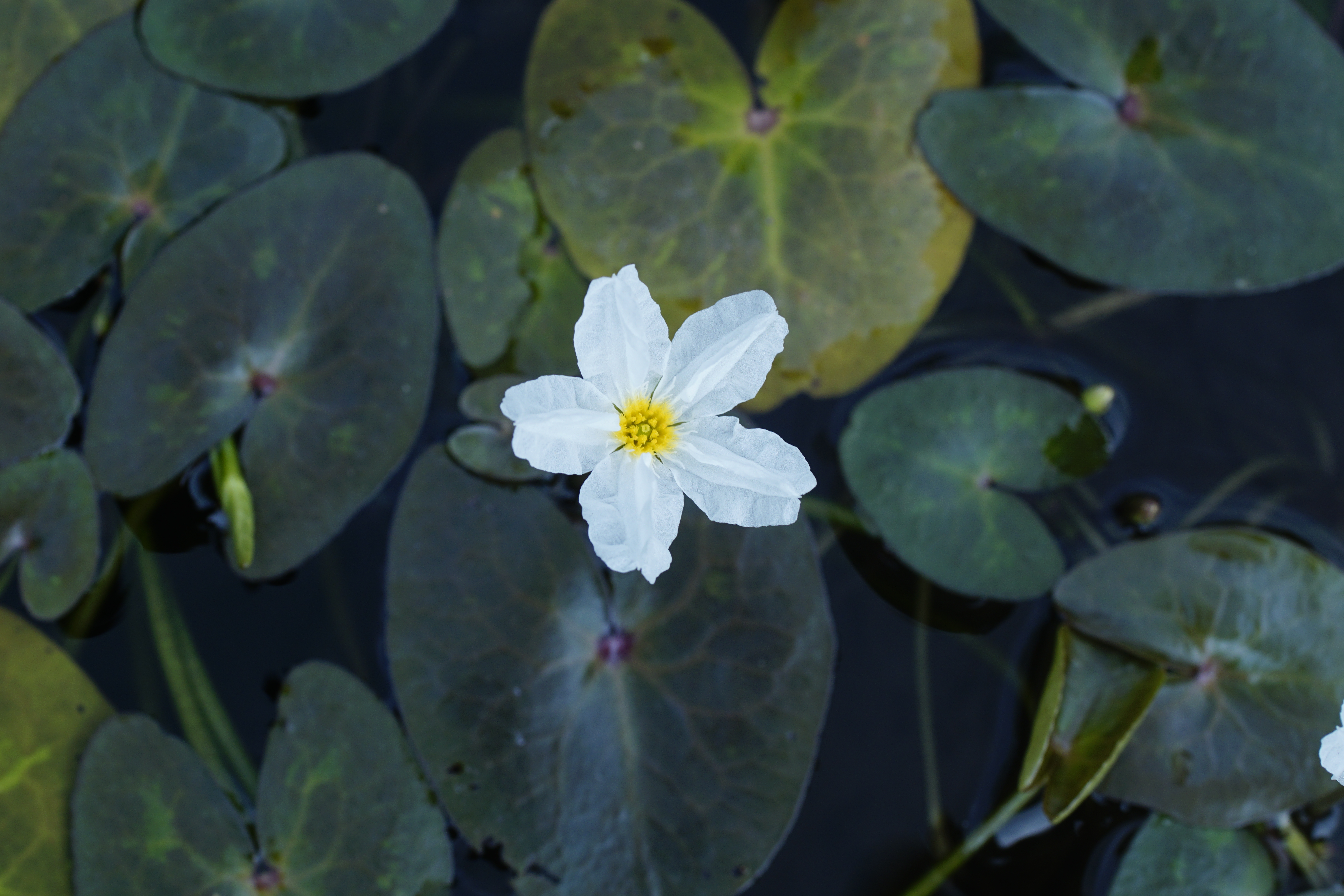 Nymphoides hydrophylla @ Malappuram